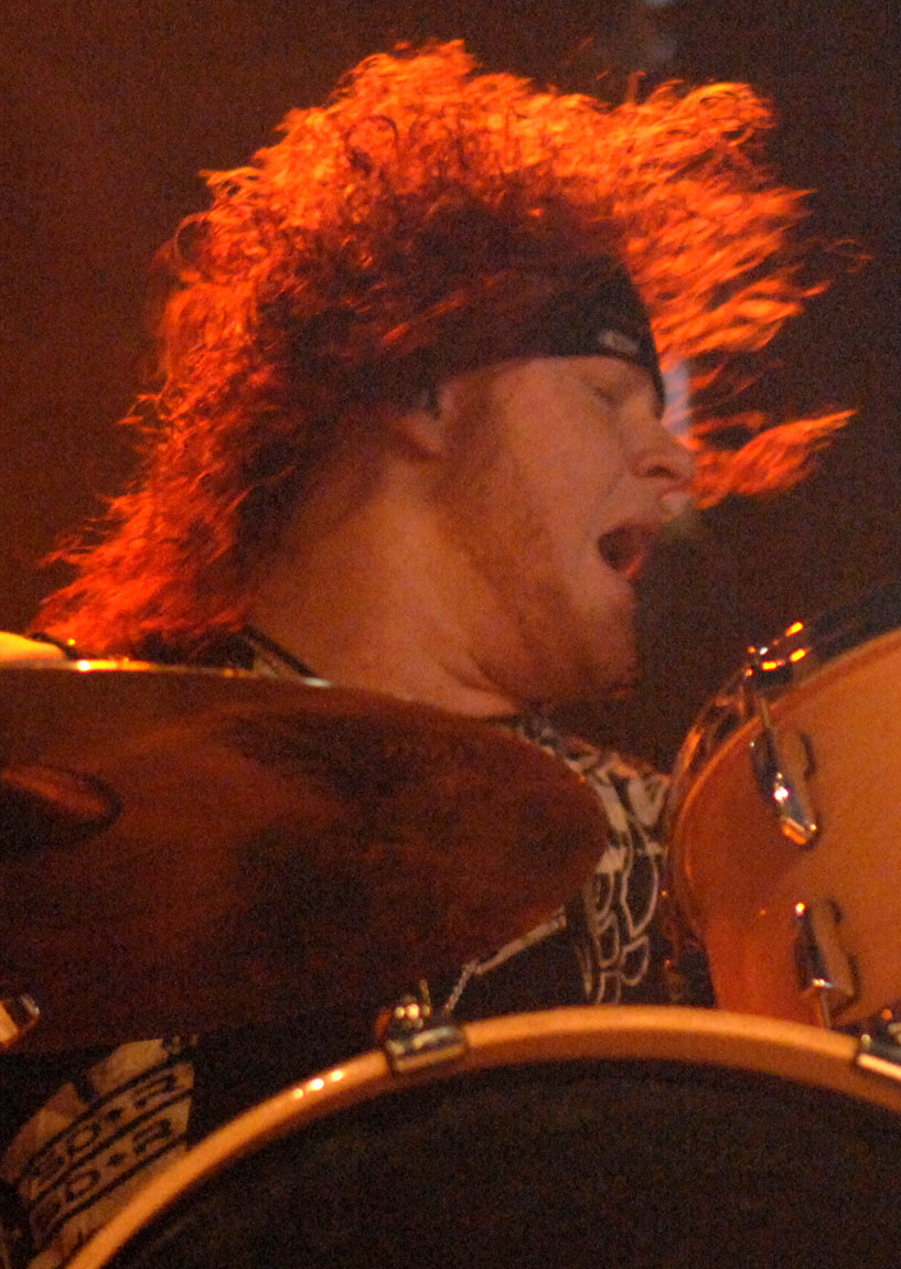 Cody Hanson, drummer for the rock band Hinder, aggressively plays to a packed audience at RAF Mildenhall, June 9. Navy Entertainment and Armed Forces Entertainment sponsored the band for a six-base tour in Europe. (U.S. Air Force photo by Staff Sgt. Christopher L. Ingersoll)